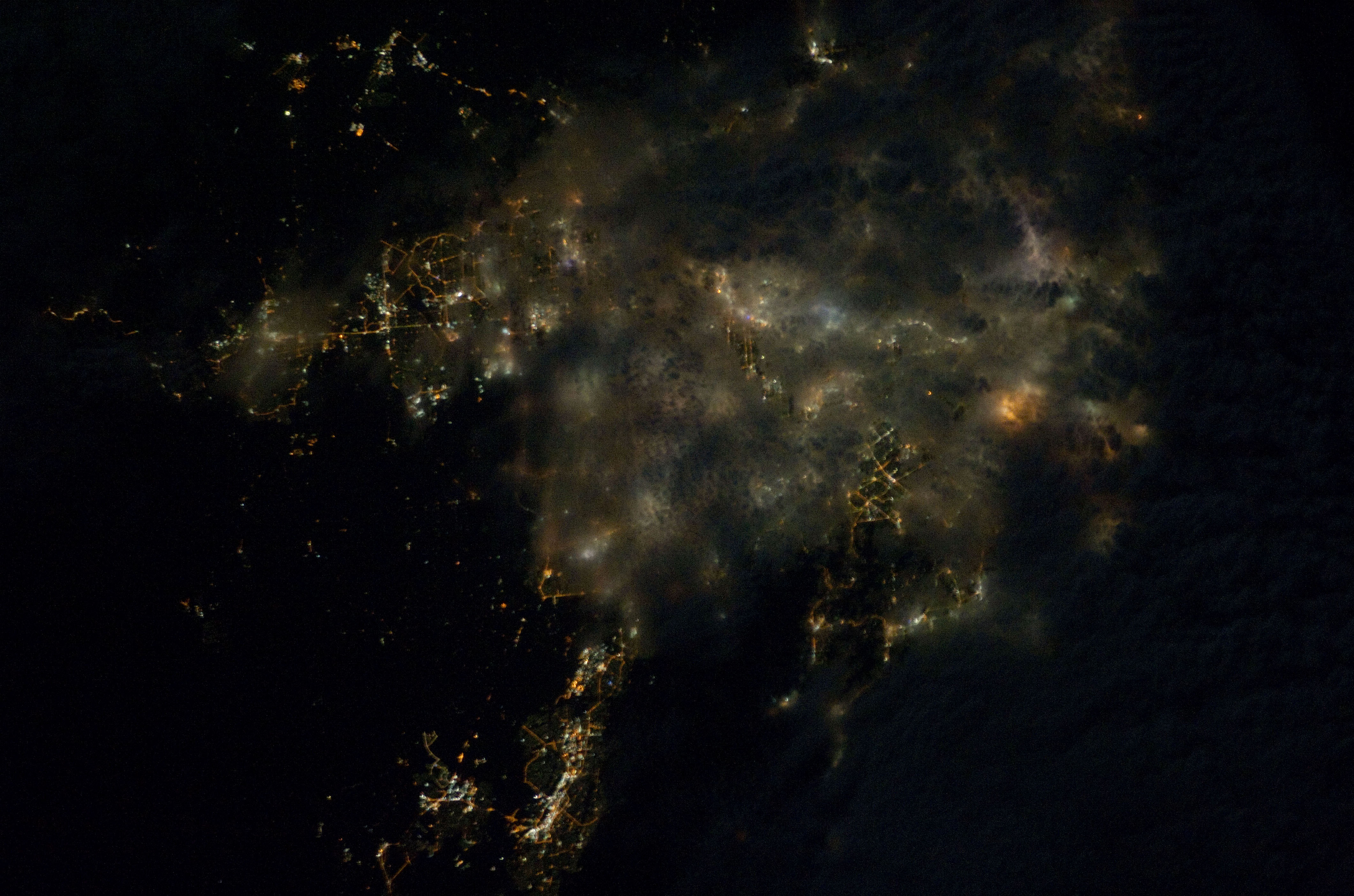 Satellite imagery of the Greater Sydney Area at night taken by NASA, January 15 2011.